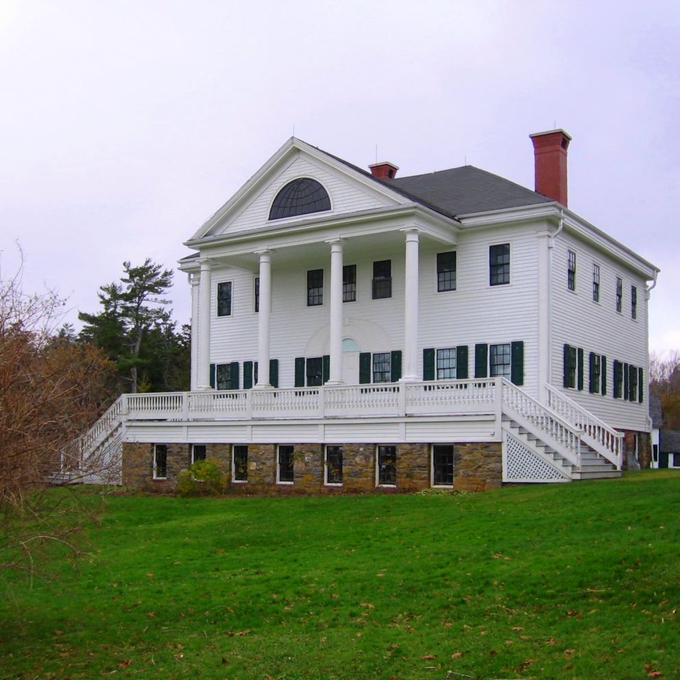 Picture of Uniacke House, Mount Uniacke Nova Scotia.